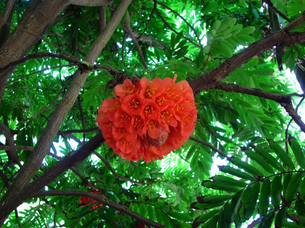 Flowering tree in mt. Coot-tha Botanic Garden, Brisbane, Australia. The inflorescence is about 20-25cm diameter and very beautiful, not perfumed although. However people walk by without seeing such beauty, because the huge flowers are hiding in the shade under the canopy. But I know about this trick! It is Brownea sp. - genus native to South America. Unsure ID (the tree was not labelled), I think it is Brownea grandiceps I am not happy with this shot (not enough light for my camera), but such flower must be in my Flickr!